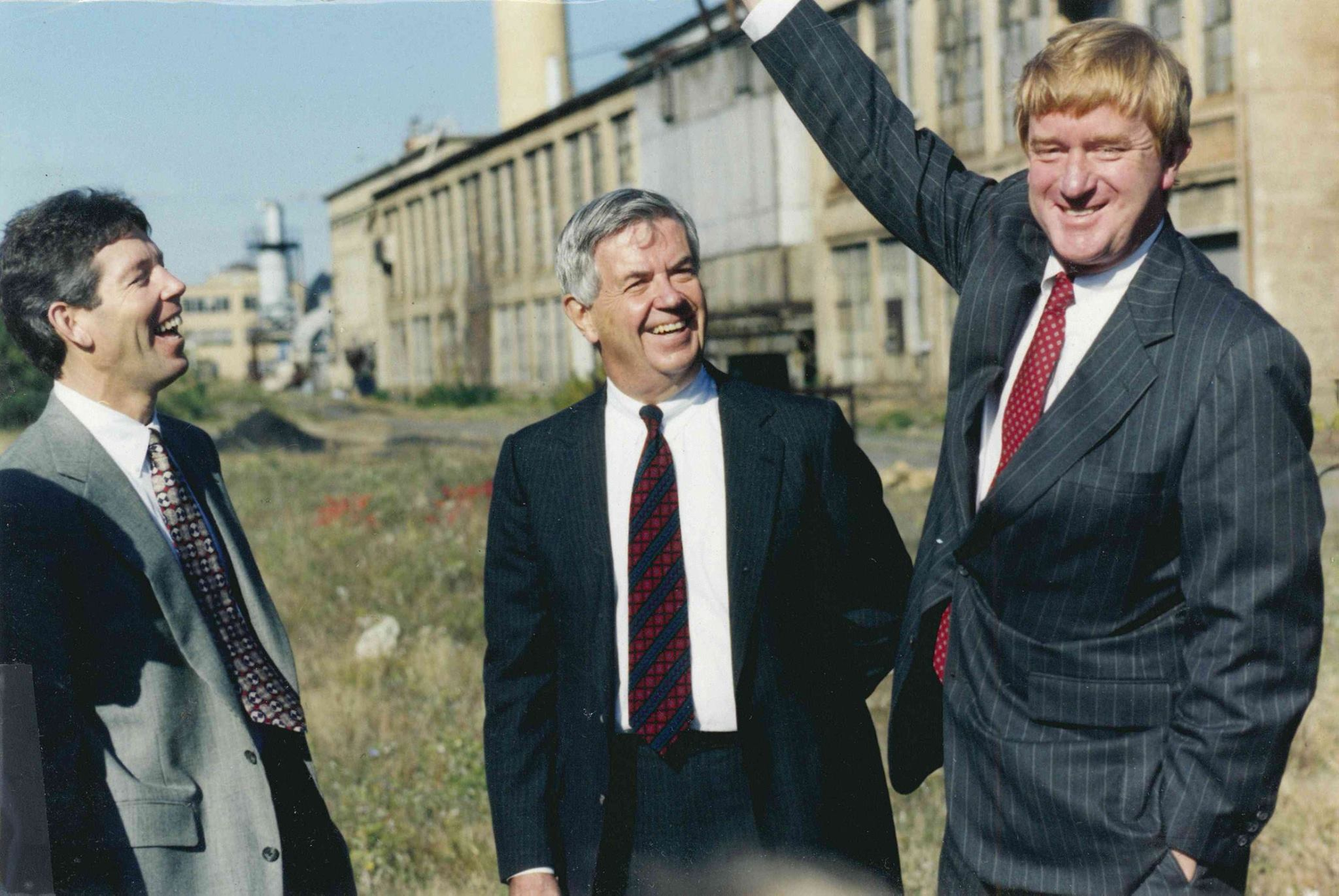 Governor William Weld at the Cummings Center in Beverly to announce the revivement of "The Shoe."